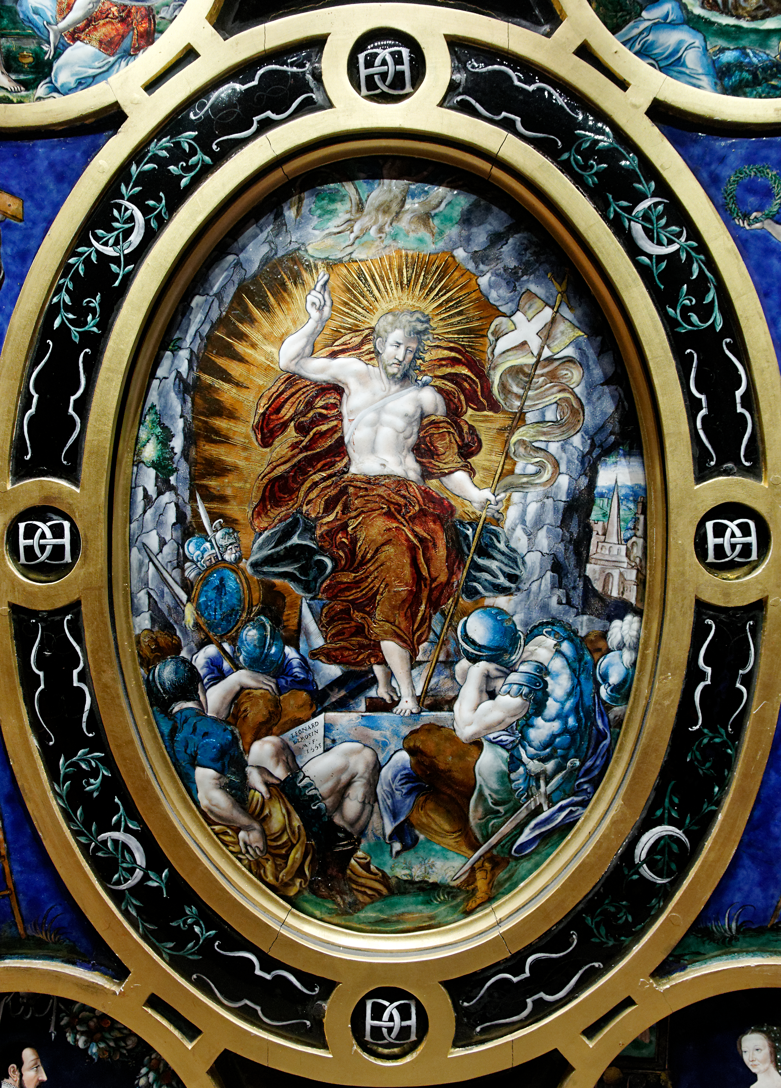 The Resurrection, central panel of an altarpiece.